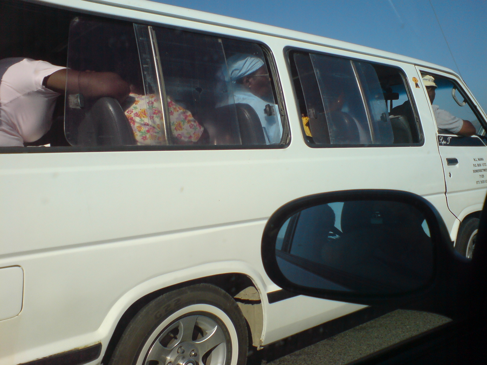 These white taxis are everywhere, usually full.